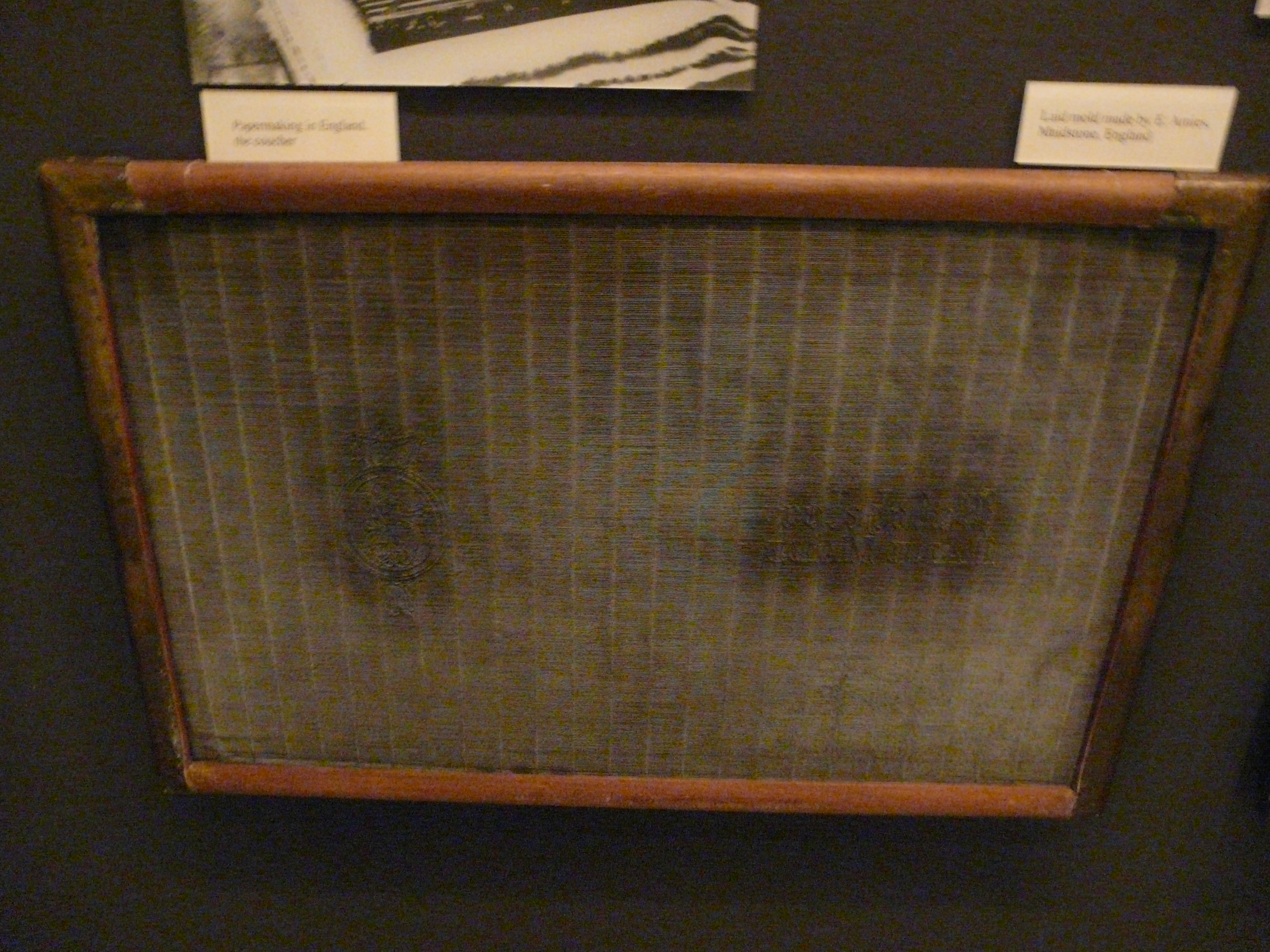 Robert C. Williams Paper Museum Laid mold made by E. Amies, England